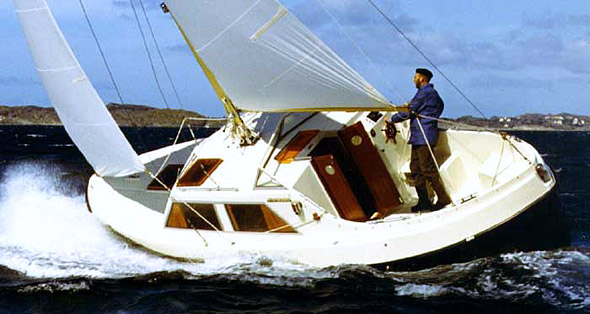 The Viksund 27 columbi is one of the many classic models launched by Viksund throughout the seventies